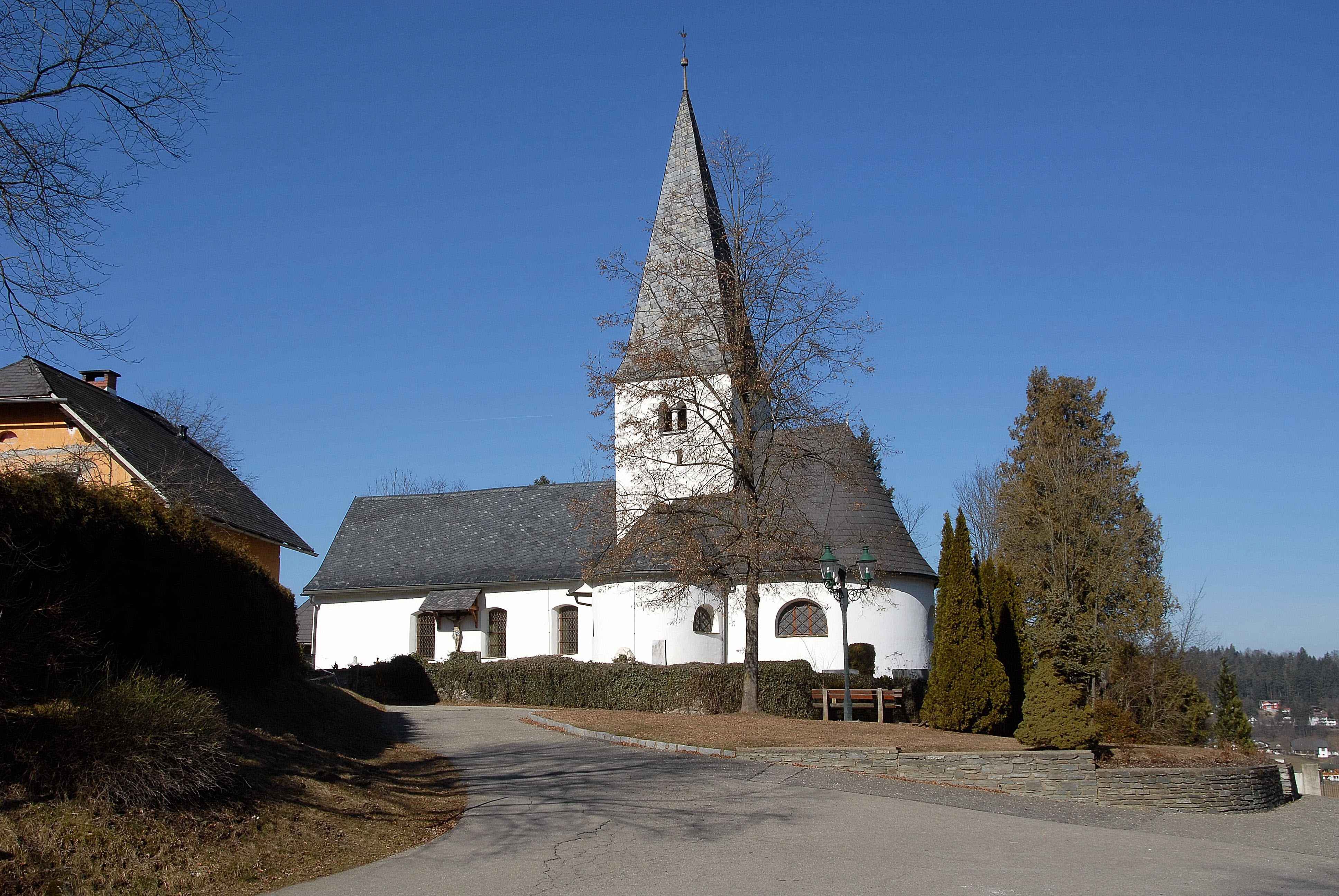 Subsidiary church Saint Ulrich at Pirk, municipality Krumpendorf, district Klagenfurt Land, Carinthia, Austria, EU